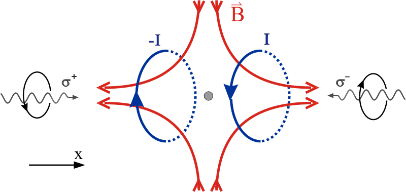 Magneto-optical trap